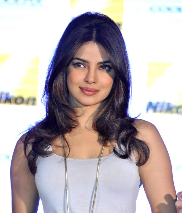 Priyanka Chopra unveils Nikon Camera's new series, 2012